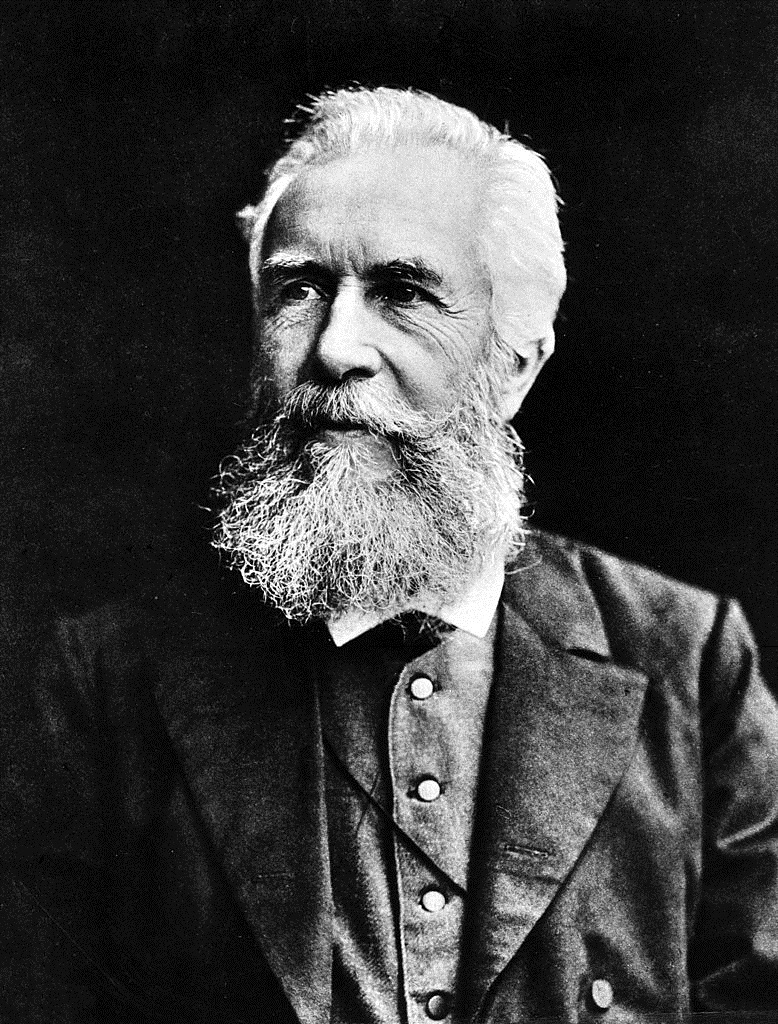 Ernst Haeckel (1834–1919) was a German biologist.